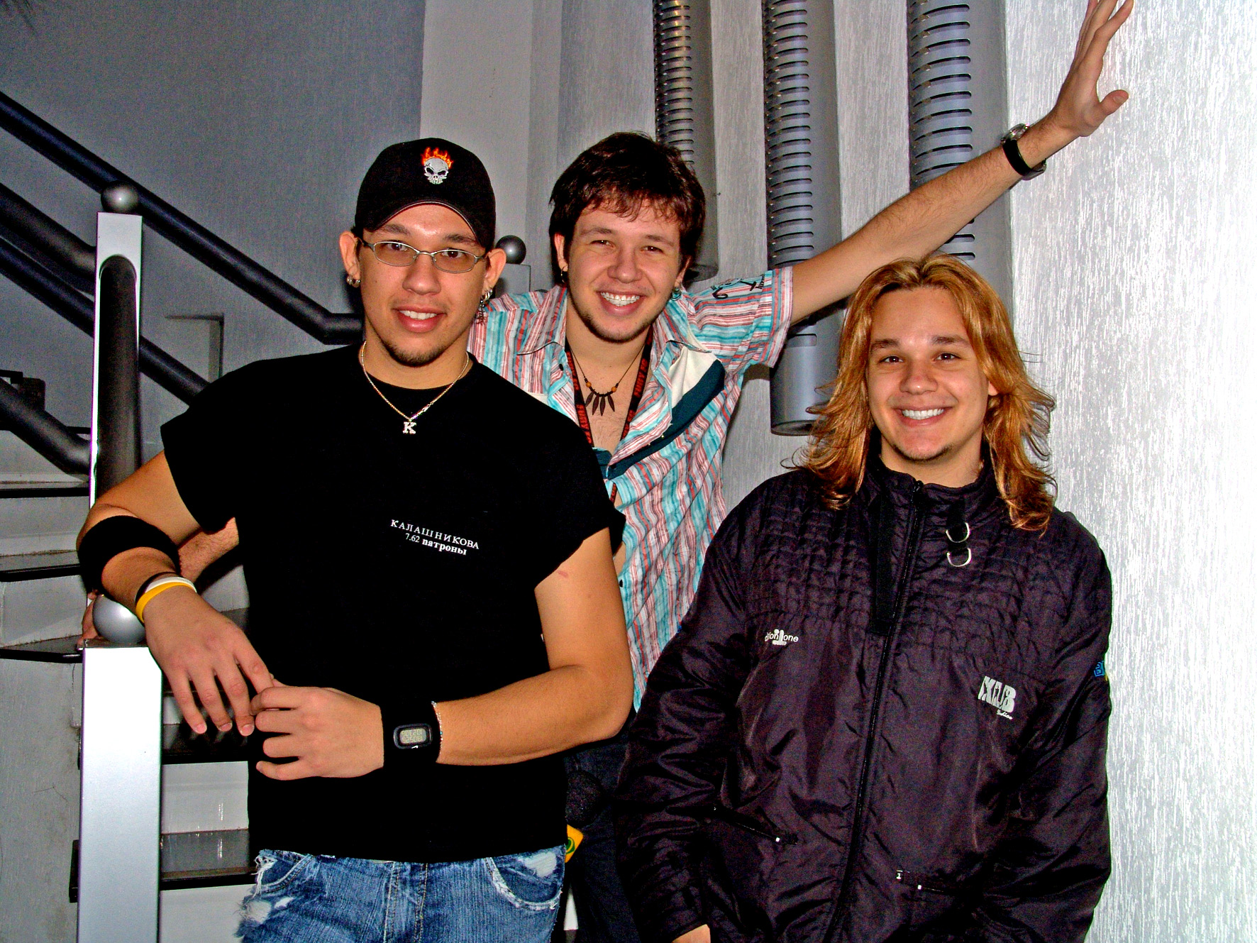 Brazilian band KLB (Left to right: Kiko, Bruno and Leandro).